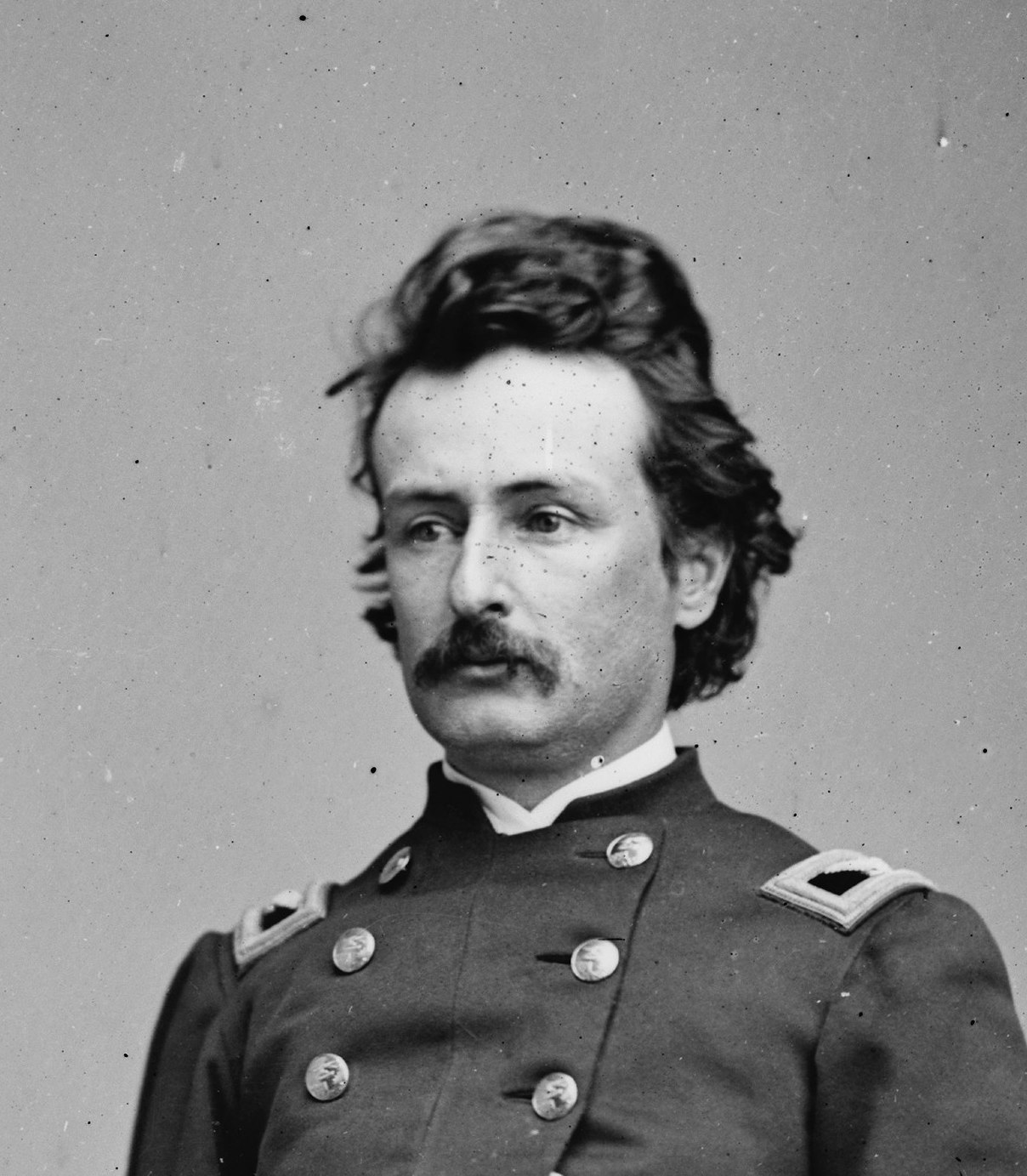 Title: E.A.[i.e. Edward Wellman] Serrell Physical description: 1 negative